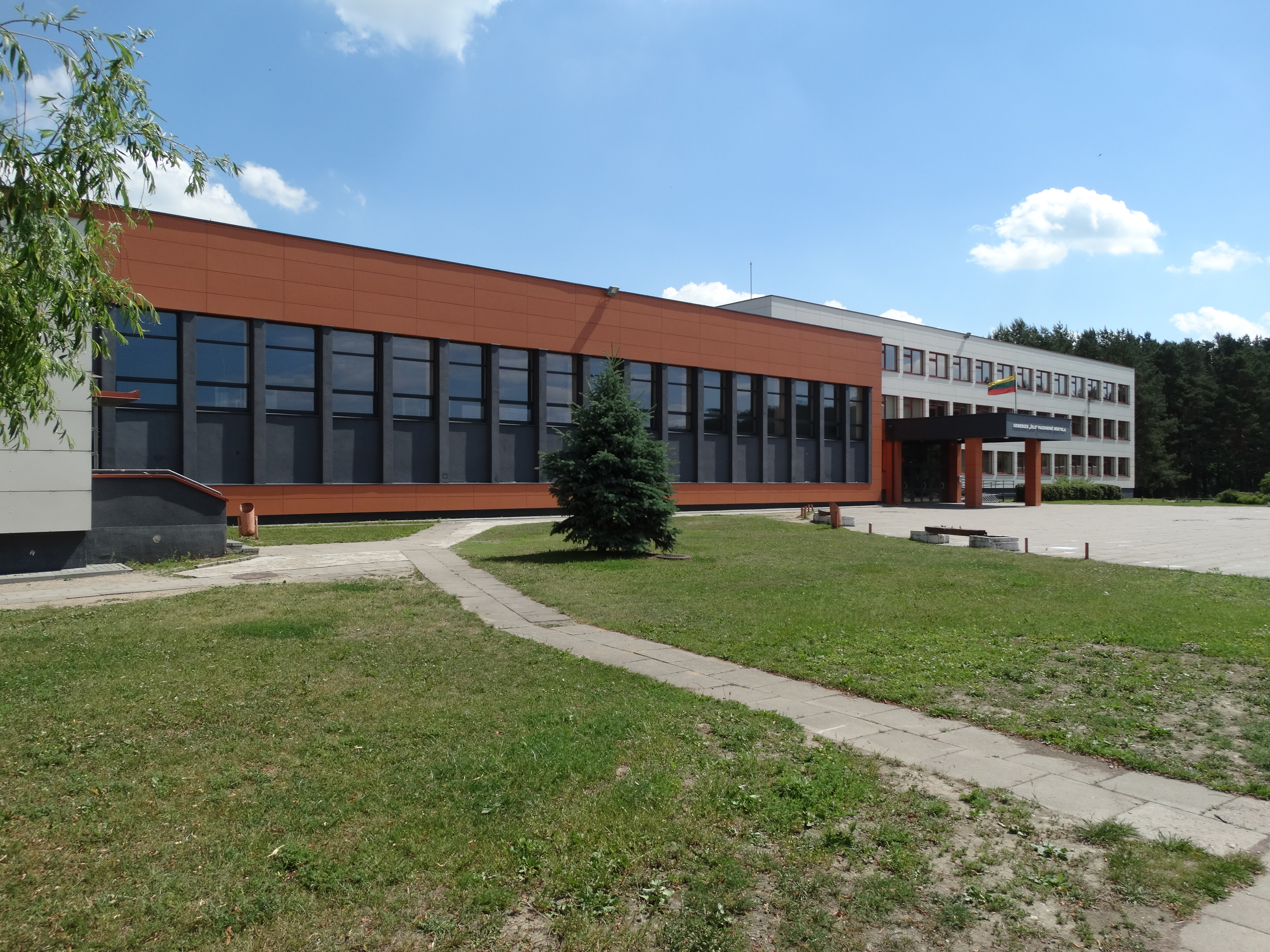 Šilas basic school, Ukmergė, Lithuania